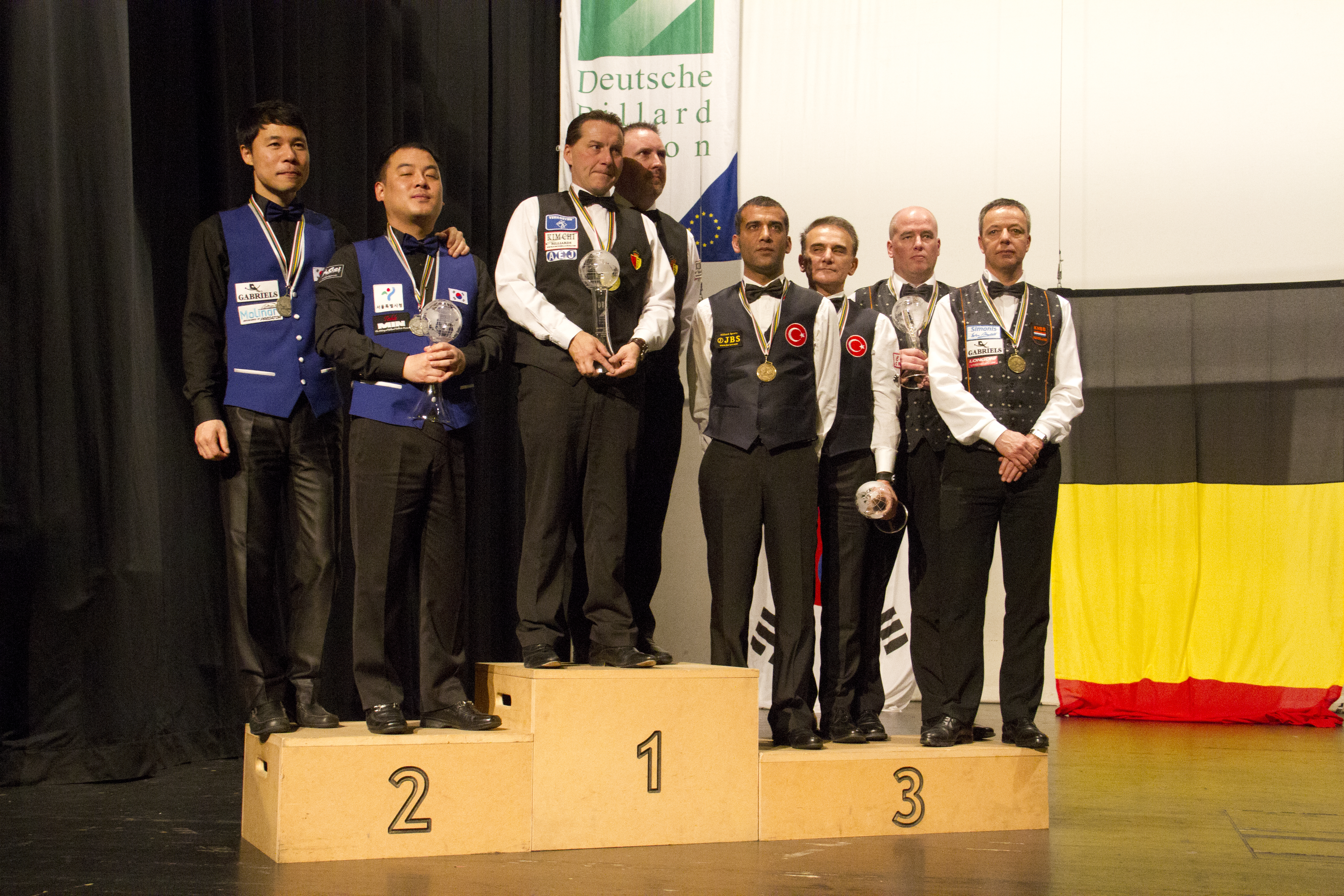 The medal winners (left to right): Heo Jung-han (KOR), Cho Jae-ho (KOR), Eddy Merckx (BEL), Frédéric Caudron (BEL), Tayfun Taşdemir (TUR), Adnan Yüksel (TUR), Barry van Beers (NLD), Dick Jaspers (NLD)